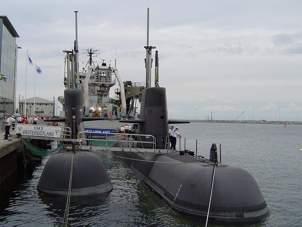 Swedish submarines HMS Uppland and HMS Västergötland visiting Malmö 2003. In the background diving- and rescue ship HMS Belos.